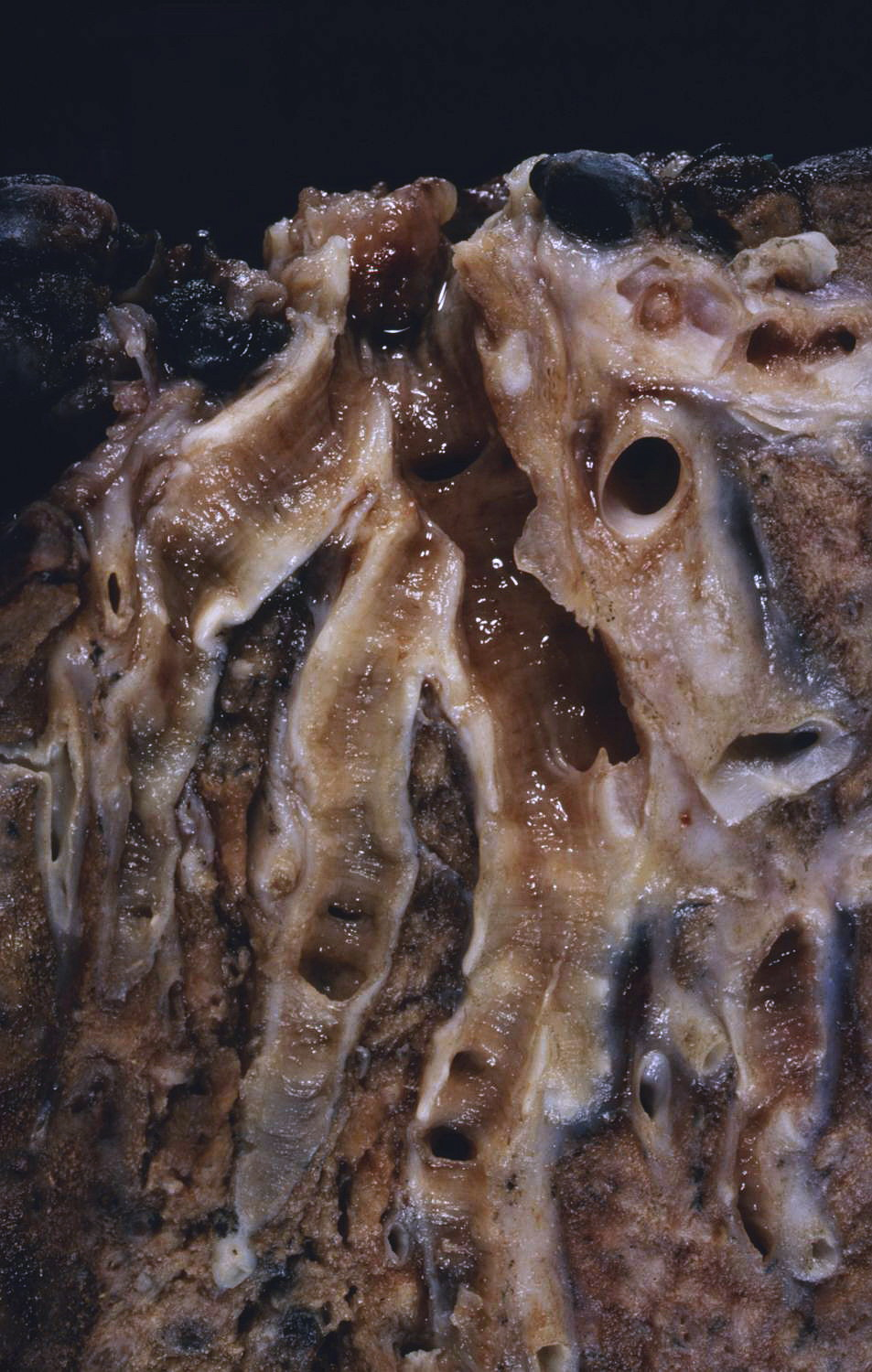 Bronchiectasis The bronchiectasis is secondary to a large carcinoid tumor (not shown) that was completely obstructing the bronchus proximally. The yellowish discoloration of lung parenchyma reflects obstructive pneumonia.